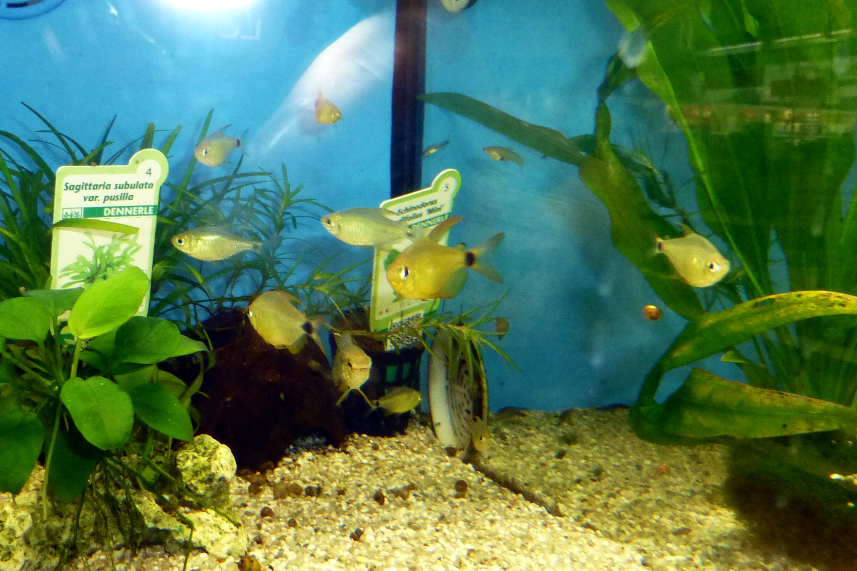 Hyphessobrycon heliacus